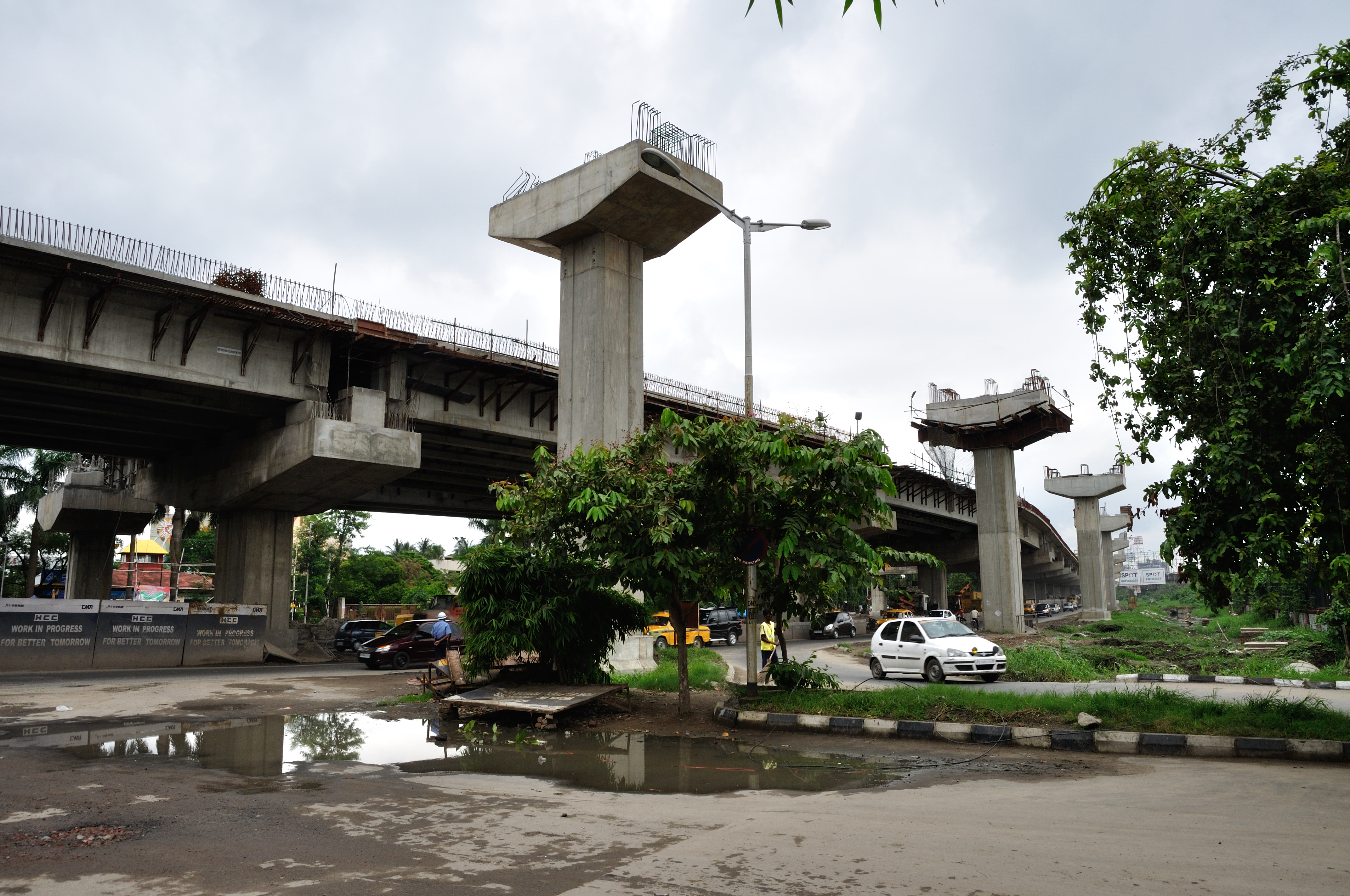 The flyover under construction from Parama island (Eastern metropolitan bypass & John Burdon Sanderson Haldane avenue junction) near Science City to Park Circus seven point crossing. The elevated corridor will act as a new city link between the central business district of Kolkata and the northern part of Kolkata Metropolitan Area (KMA). It will accommodate very high growth of traffic, estimated at one lakh vehicles per day. It is a joint venture of the Govt. of India, Govt. of West Bengal and Kolkata Metropolitan Development Authority (KMDA). It is implementing by KMDA.